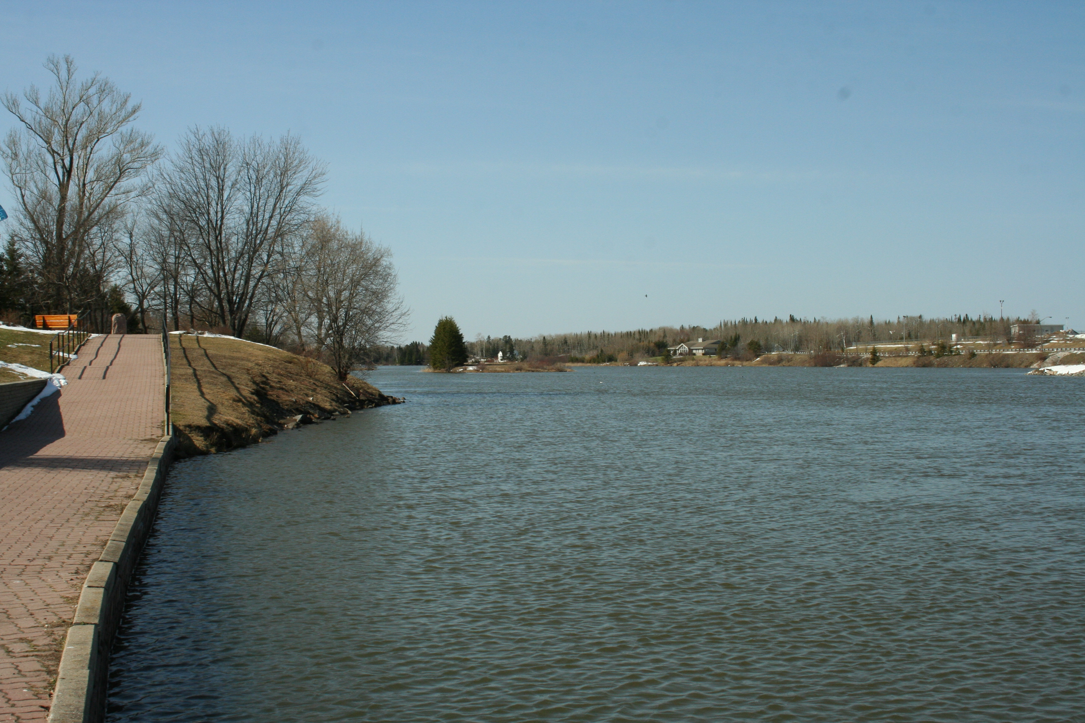 Picture of Dryden Wabigoon River